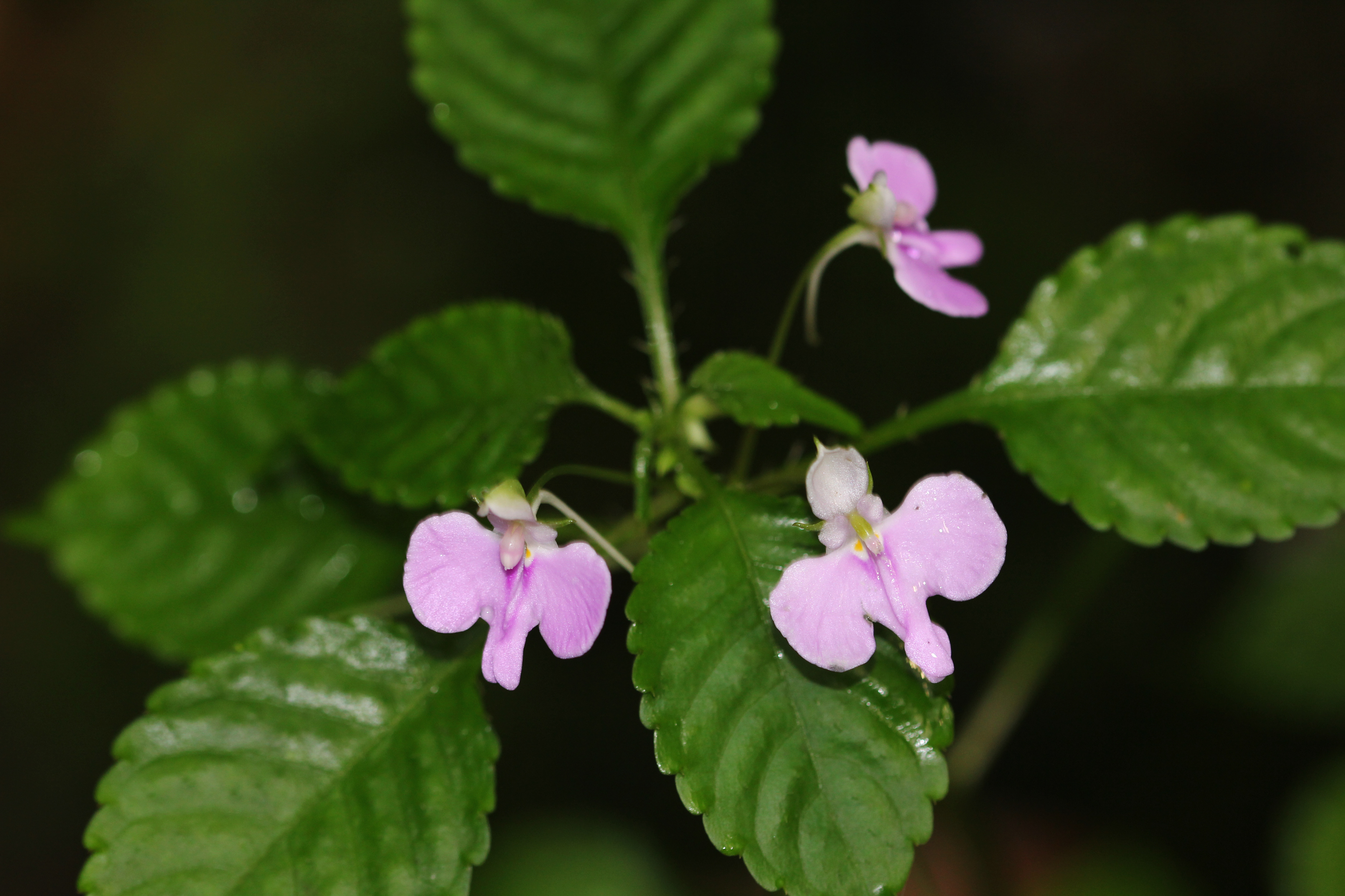 Plant Impatiens hochstetteri in Fata Morgana Greenhouse, Prague, Troja Česky: Netýkavka Impatiens hochstetteri Impatiens hochstetteri v pražském skleníku Fata Morgana (Troja)